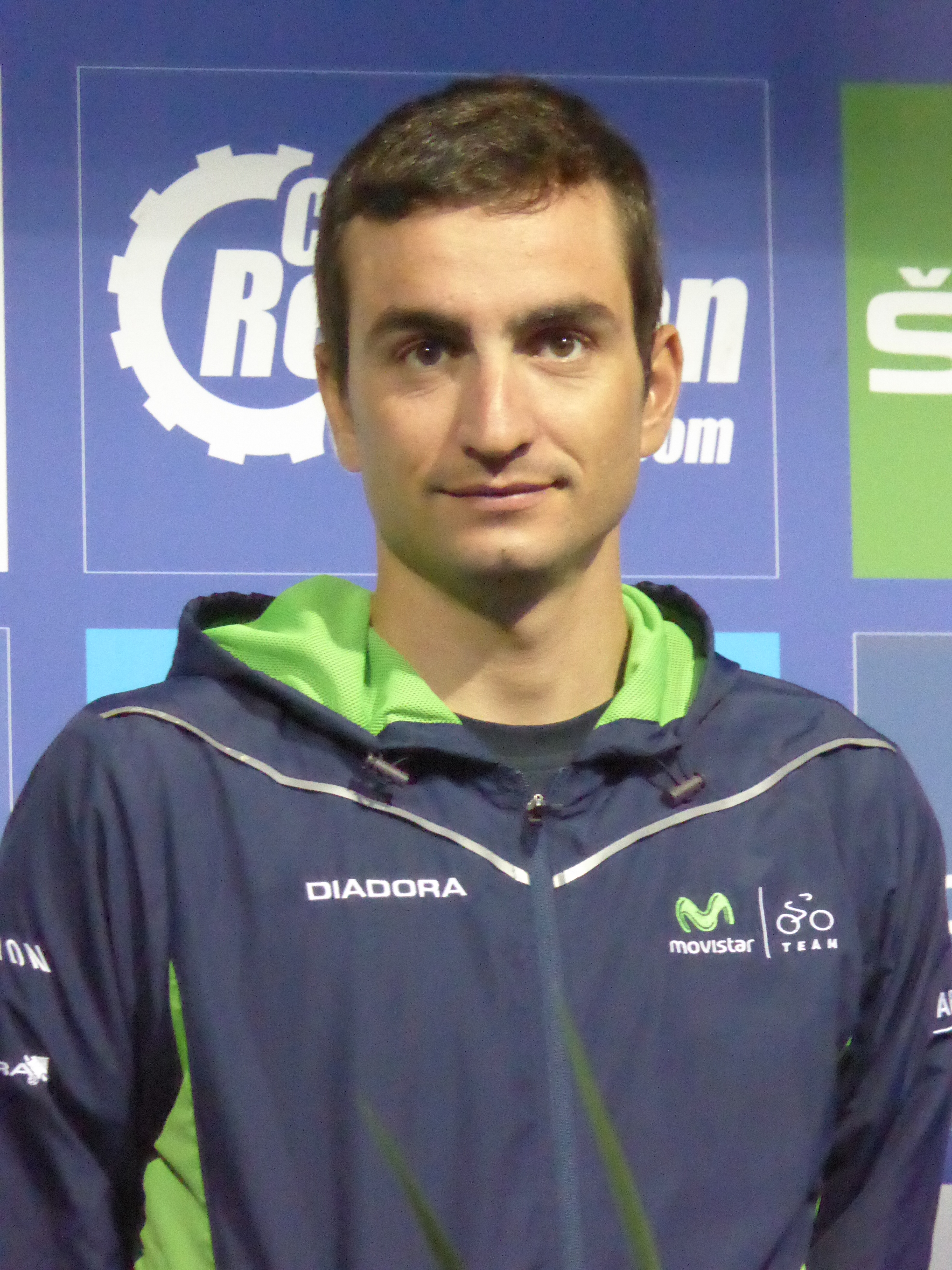 Juan José Lobato (Movistar Team), pictured at the 2016 Tour of Britain team presentation in Glasgow on 3 September 2016.